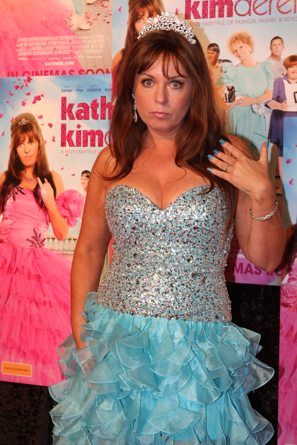 Kath & Kimderella movie premiere at Entertainment Quarter; Sydney, Australia